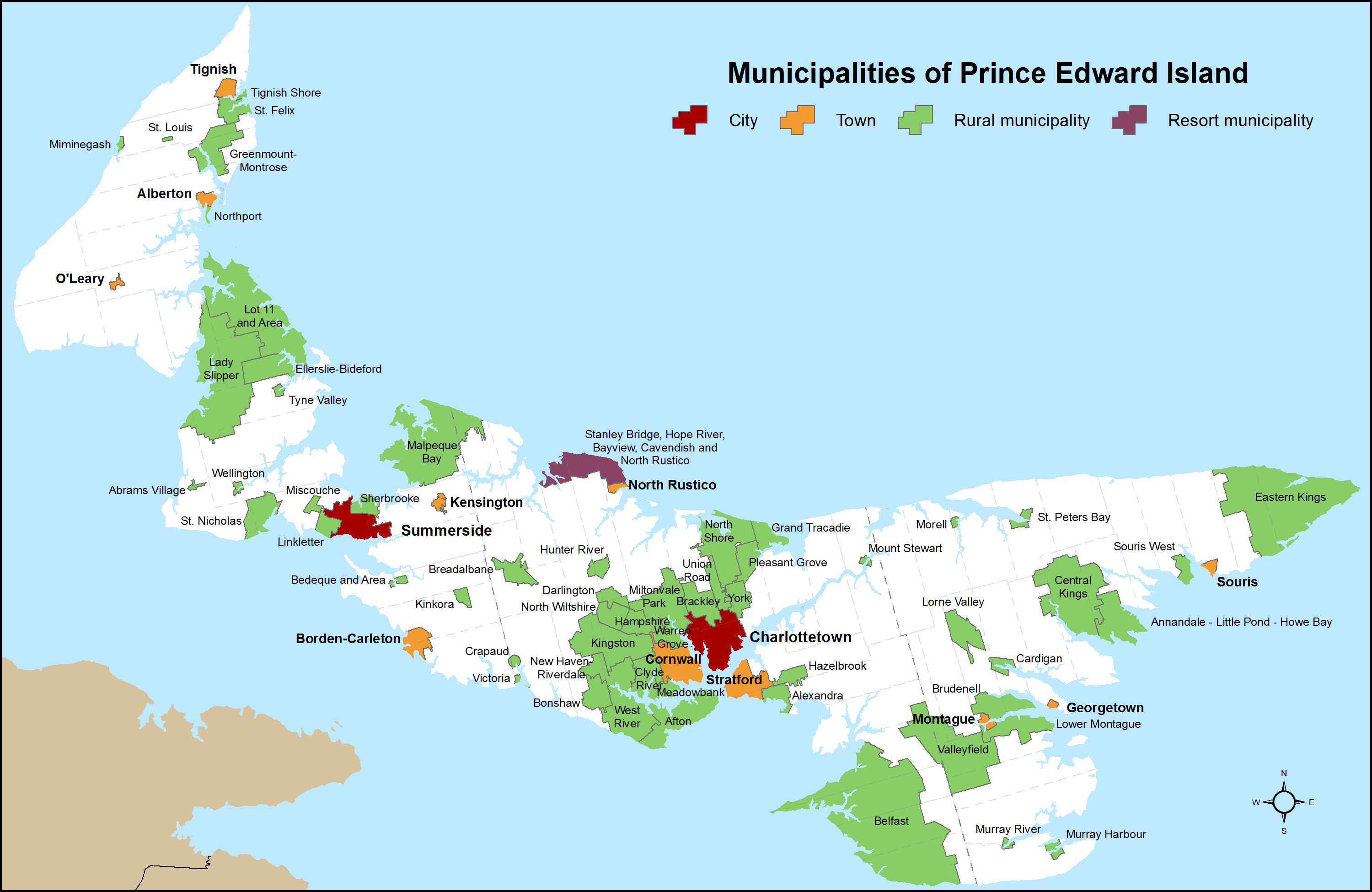 Distribution of Prince Edward Island's 72 municipalities (2 cities, 11 towns, 58 rural municipalities and 1 resort municipality) utilizing the Government of Prince Edward Island's municipal boundaries and Statistics Canada's base features.